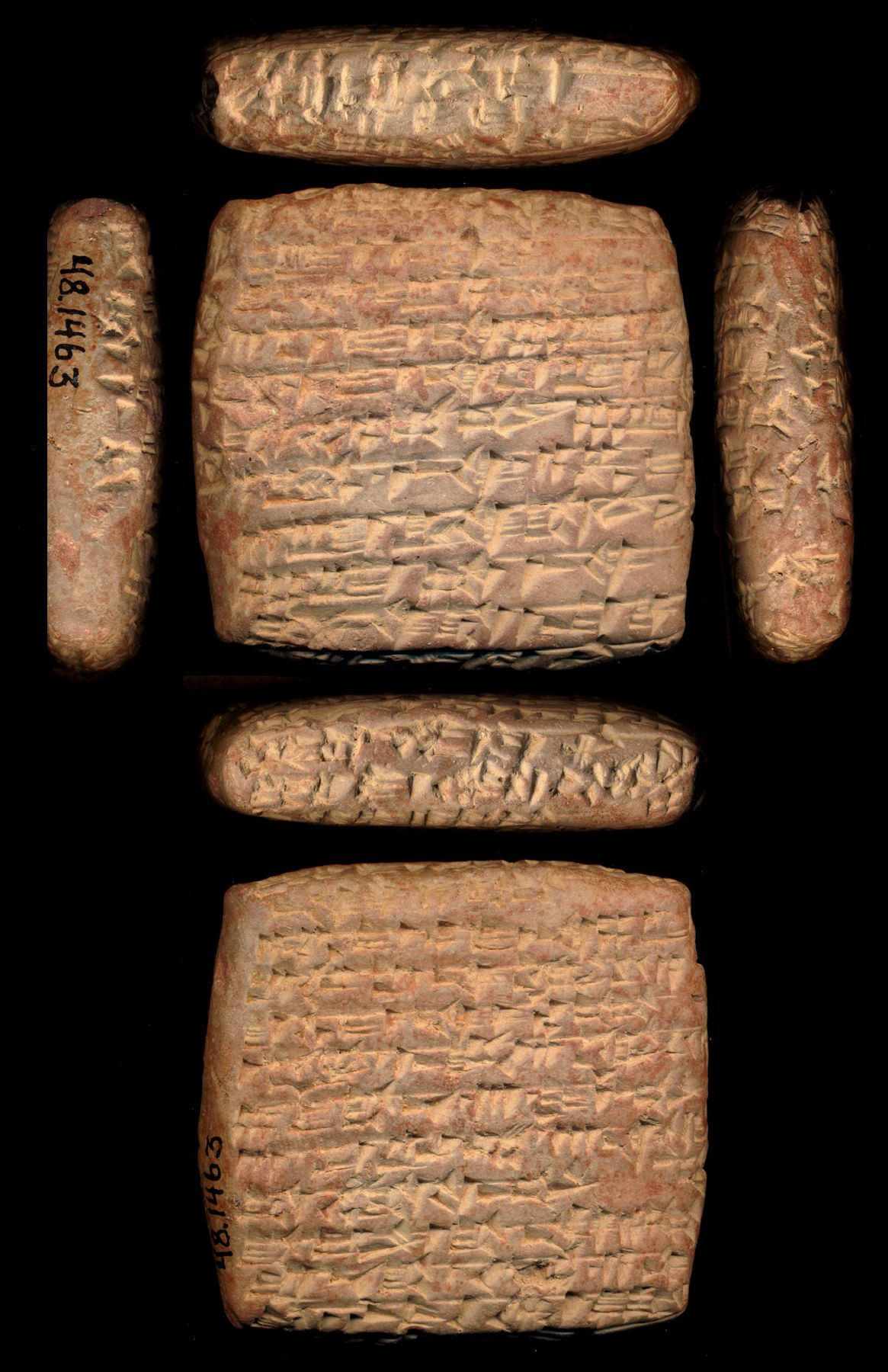 This tablet is unglazed.